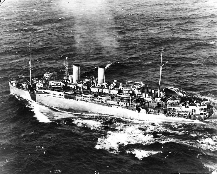 USS Orizaba (AP-24) Underway at sea, circa 1944. The ship is painted in Camouflage Measure 32, Design 11F. Courtesy of the Mariners Museum, Newport News, Virginia. Ted Stone Collection. U.S. Naval Historical Center Photograph.